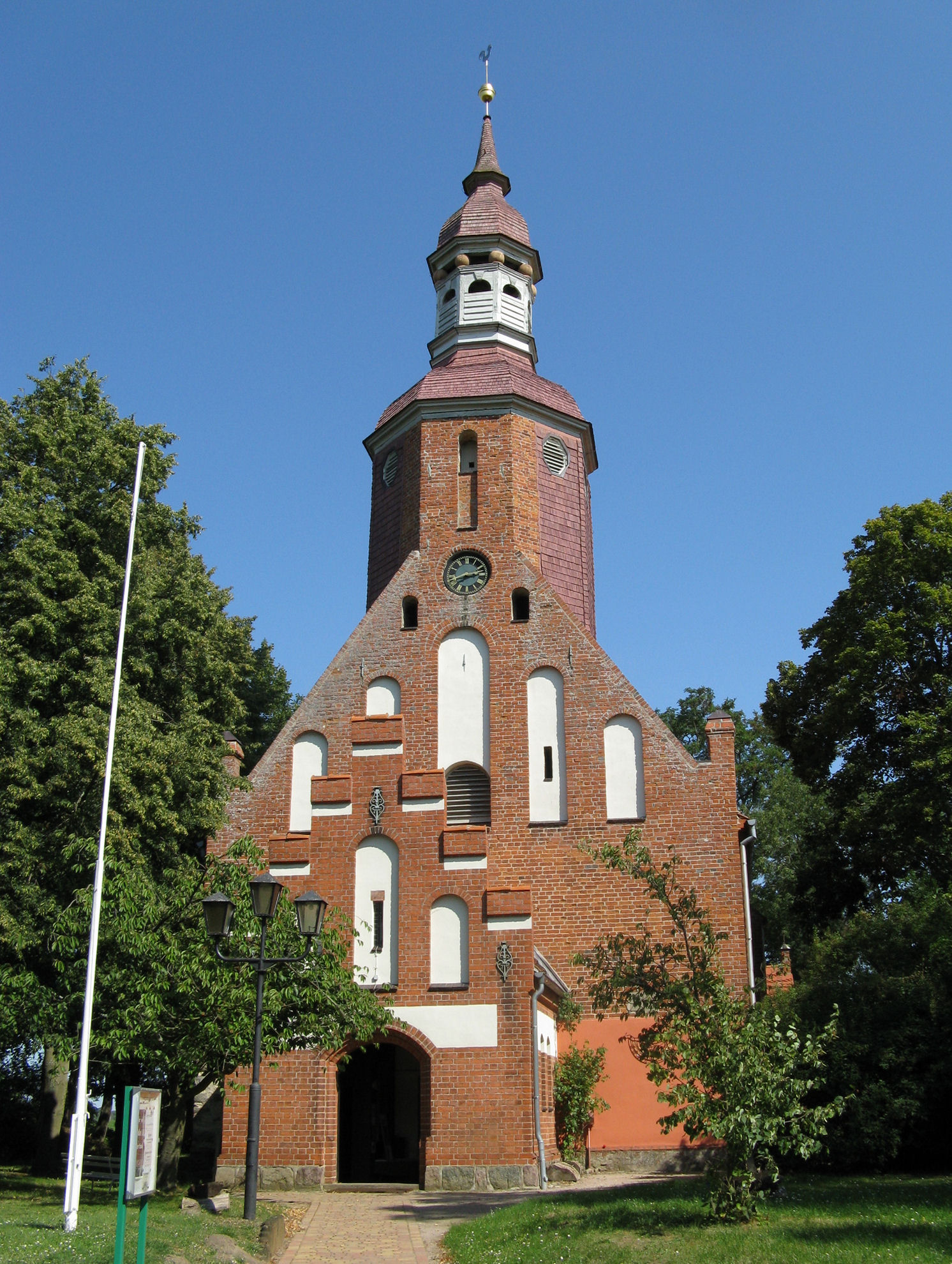 Church in Dargun, disctrict Demmin, Mecklenburg-Vorpommern, Germany